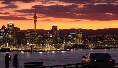 Auckland sunset from the top of Mount Victoria (Takurunga) Devonport, New Zealand.